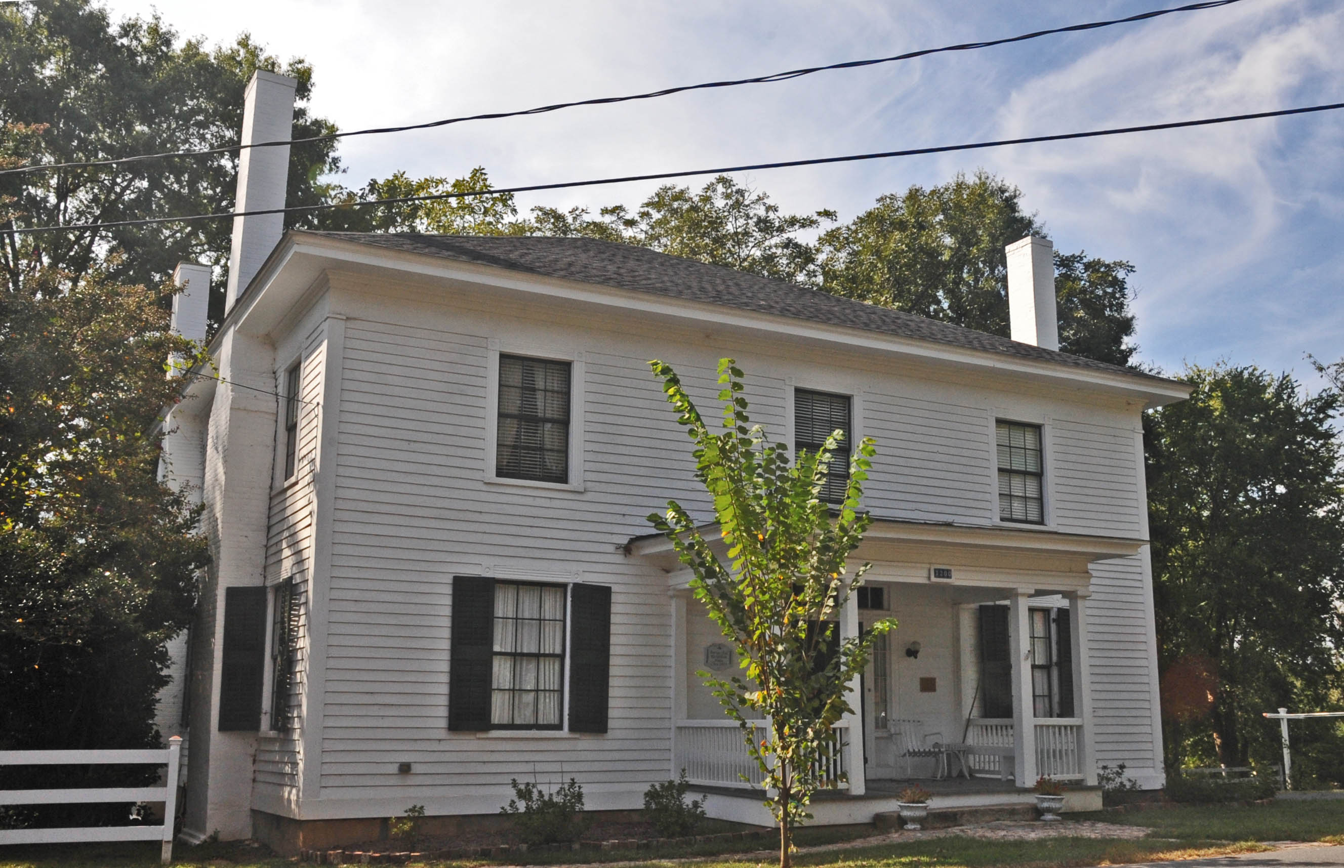 BARRIER, FOIL RICHARDSON HOUSE; CIRCA 1853